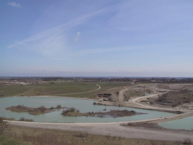 Hedeland is a former large gravel pit, now recreational area; image shows a former gravel pit (higher resolution version will be contributed later)